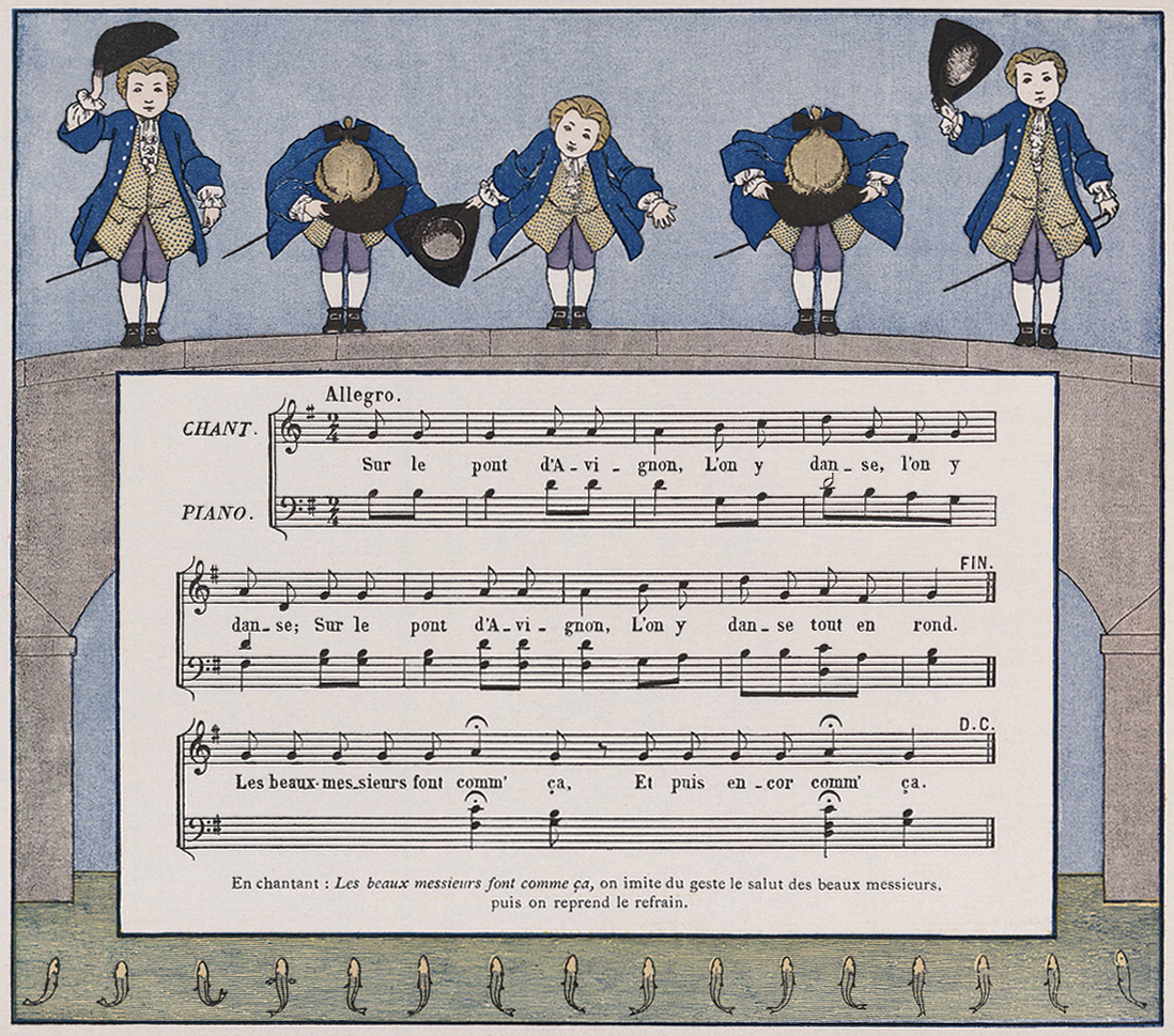 "La Boulangère", sheet music with illustration from a French children's book Vieilles Chansons pour les Petits Enfants: Avec Accompagnements (Old Songs for Small Children with Accompaniments).